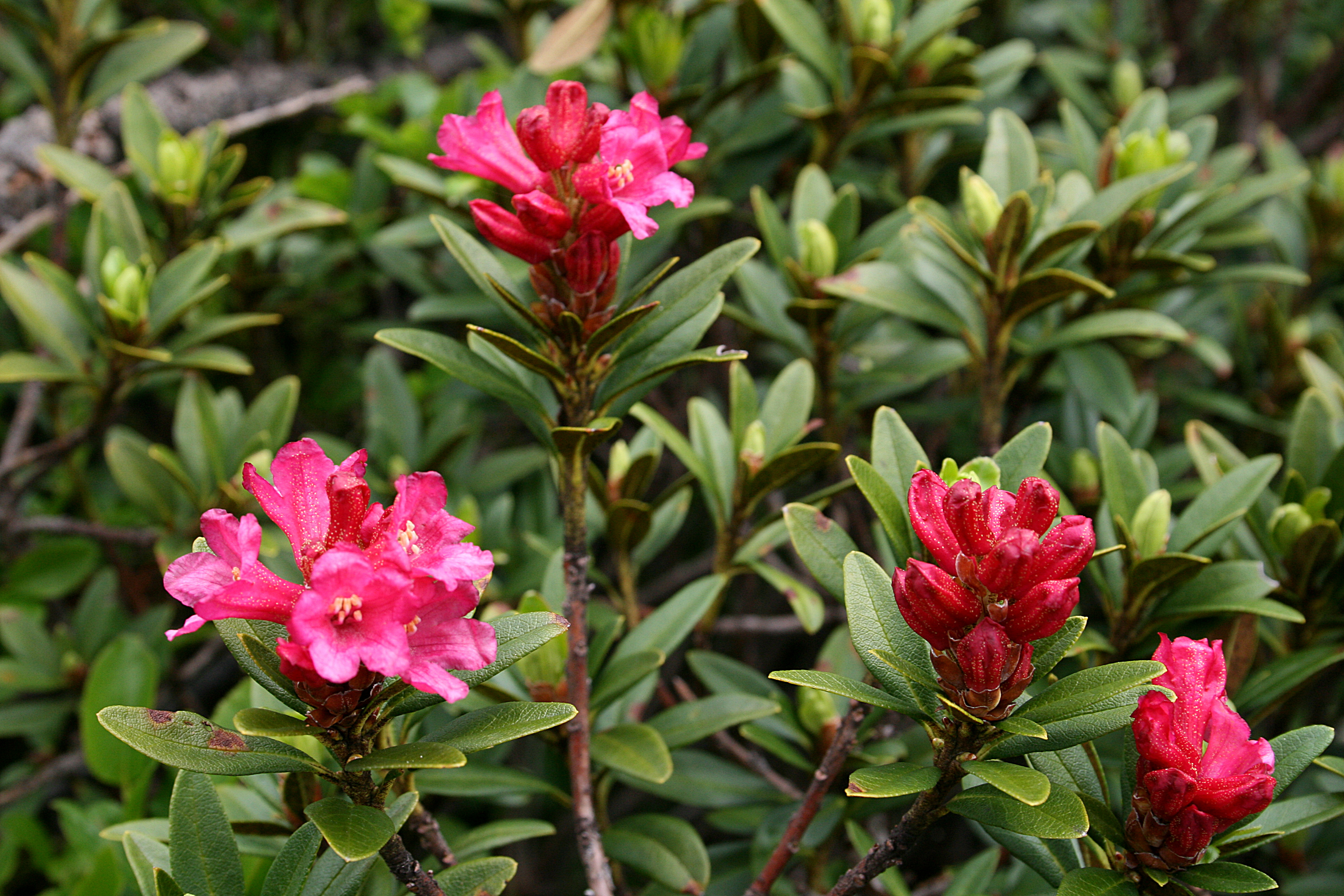 Alpenrose